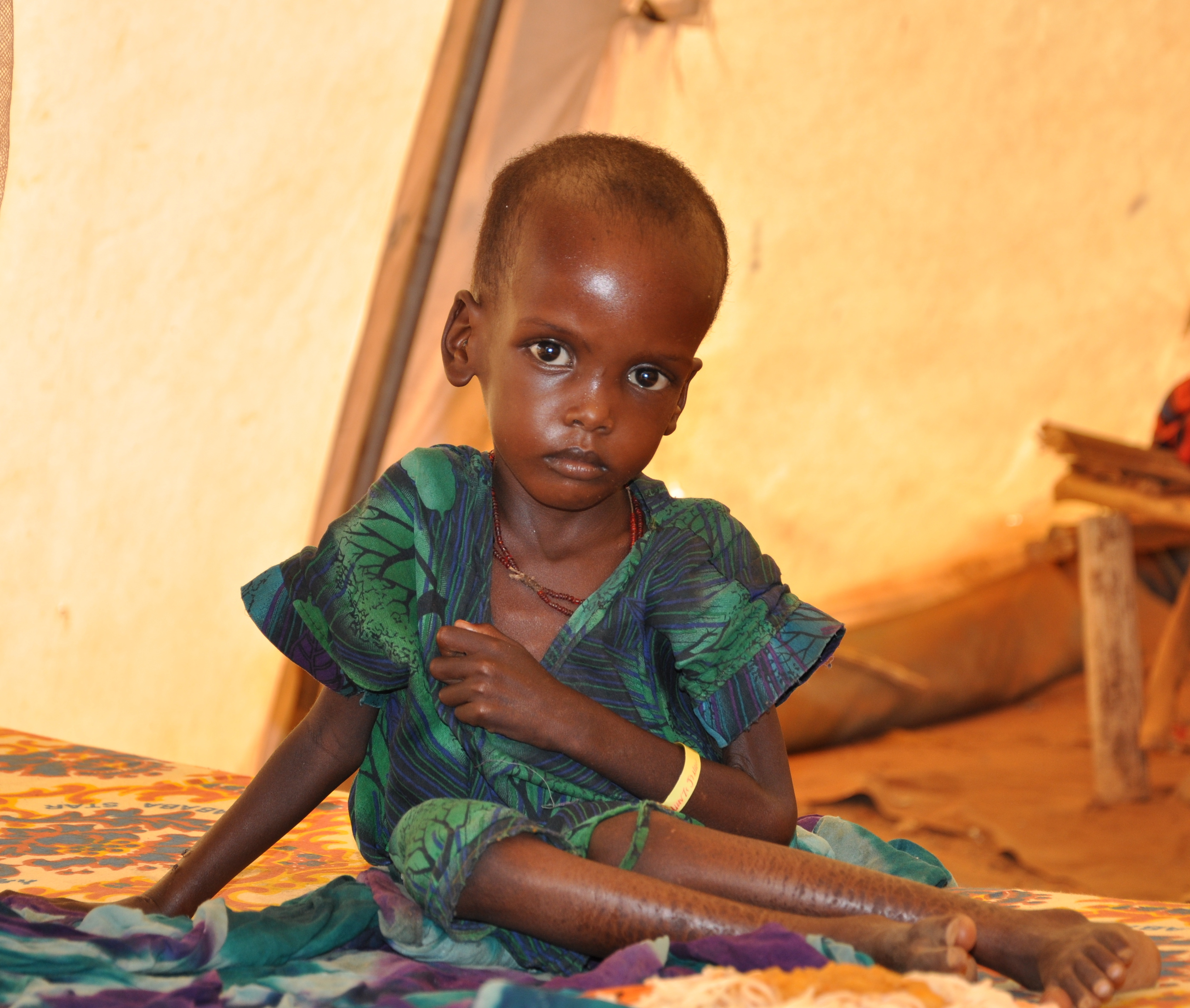 A malnourished child in an Medicins Sans Frontieres (Doctors Without Borders) treatment tent in the Dolo Ado camp, near Ethiopia's border with Somalia. The United Nations has recently declared a famine in five regions of Somalia, and millions of people are at risk of severe hunger and starvations across the Horn of Africa (Somalia, Ethiopia and Kenya). Malnutrition rates amongst young children in the Dolo Ado camps are up to three times the emergency thresholds. To find out how the UK is helping in Ethiopia, Somalia and Kenya, visit: Picture: Cate Turton/Department for International Development Terms of use This image is posted under a Creative Commons - Attribution Licence , in accordance with the Open Government Licence . You are free to embed, download or otherwise re-use it, as long as you credit the source as 'Cate Turton / Department for International Development'.